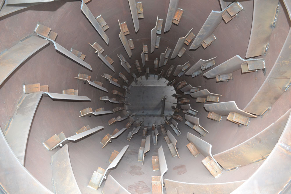 The shovelling plates in the drying drum.